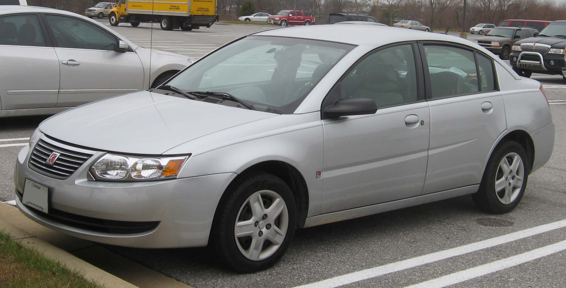 2005-2007 Saturn Ion photographed in Waldorf, Maryland, USA.